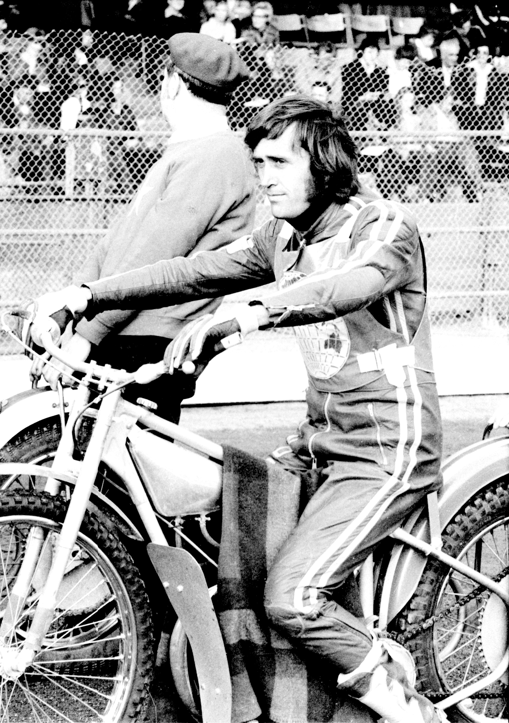 Anders Michanek (Sweden and Reading), speedway rider at the Intercontinental Final